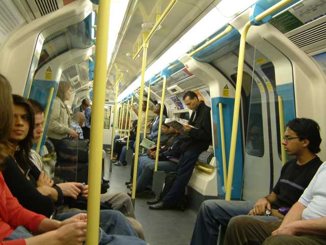 London Underground, interior of a train at the Jubilee Line